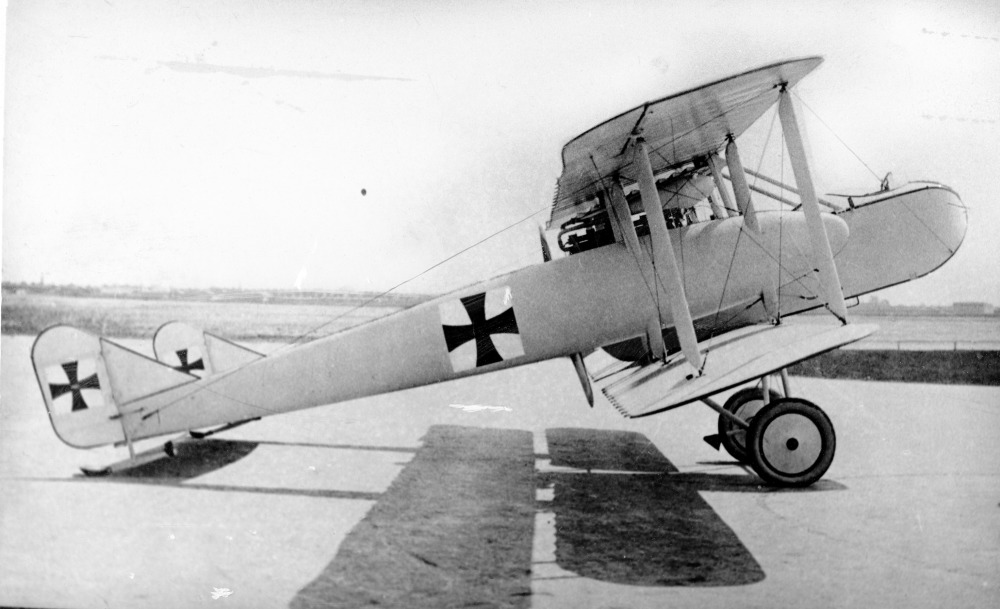 AGO C.III 1915 2nd version